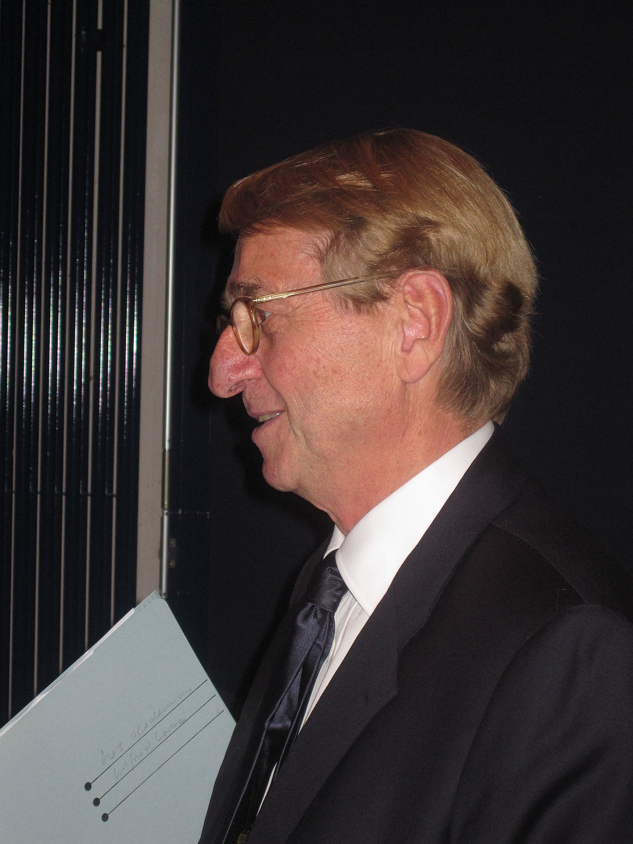 German surgeon and professor